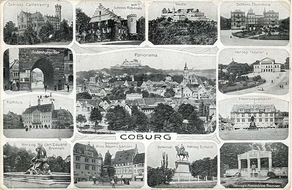 Postcard, dated 15.3.1916. Title: "Coburg - Panorama - Callenberg Castle - Rosenau castle - Fortress - Ehrenburg Castle - Jews´gate - Town hall - Theater - Government building - Duke Carl Eduard-Fountain - Prince Albert of Saxony-Monument - Duke Ernst II.-Monument - Duchess Alexandrina-Fountain"